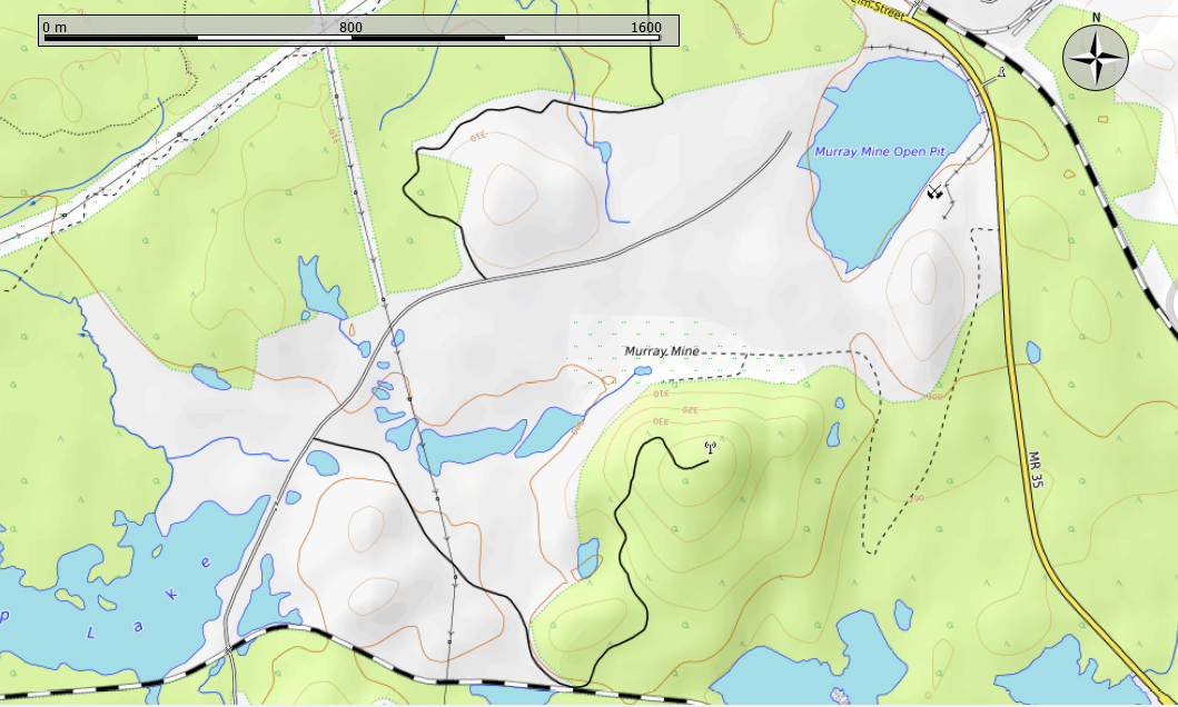 Topographical map of the Murray Mine, taken from the Open Topo overlay in the Marble program. Cropped by the uploader.